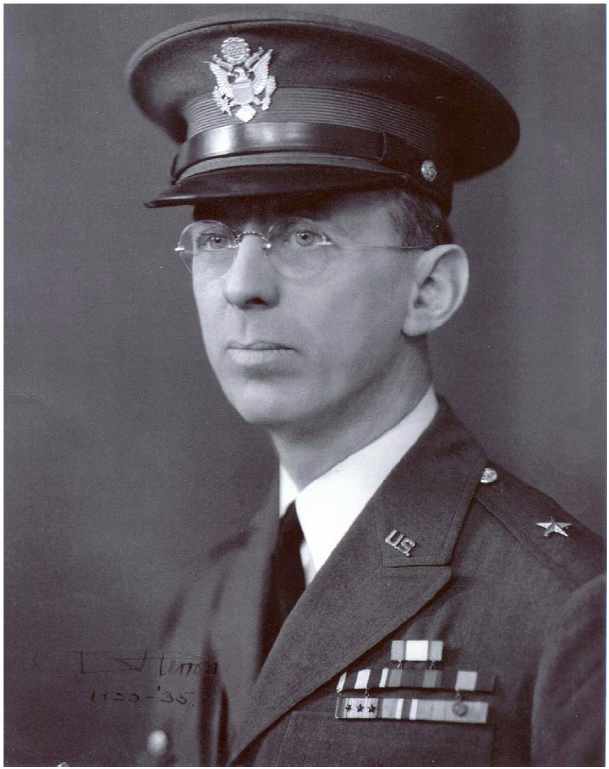 Charles Douglas Herron (March 13, 1877 – April 23, 1977) was a general in the United States Army, who served on the Personnel Board that considered officers for promotion during Second World War.